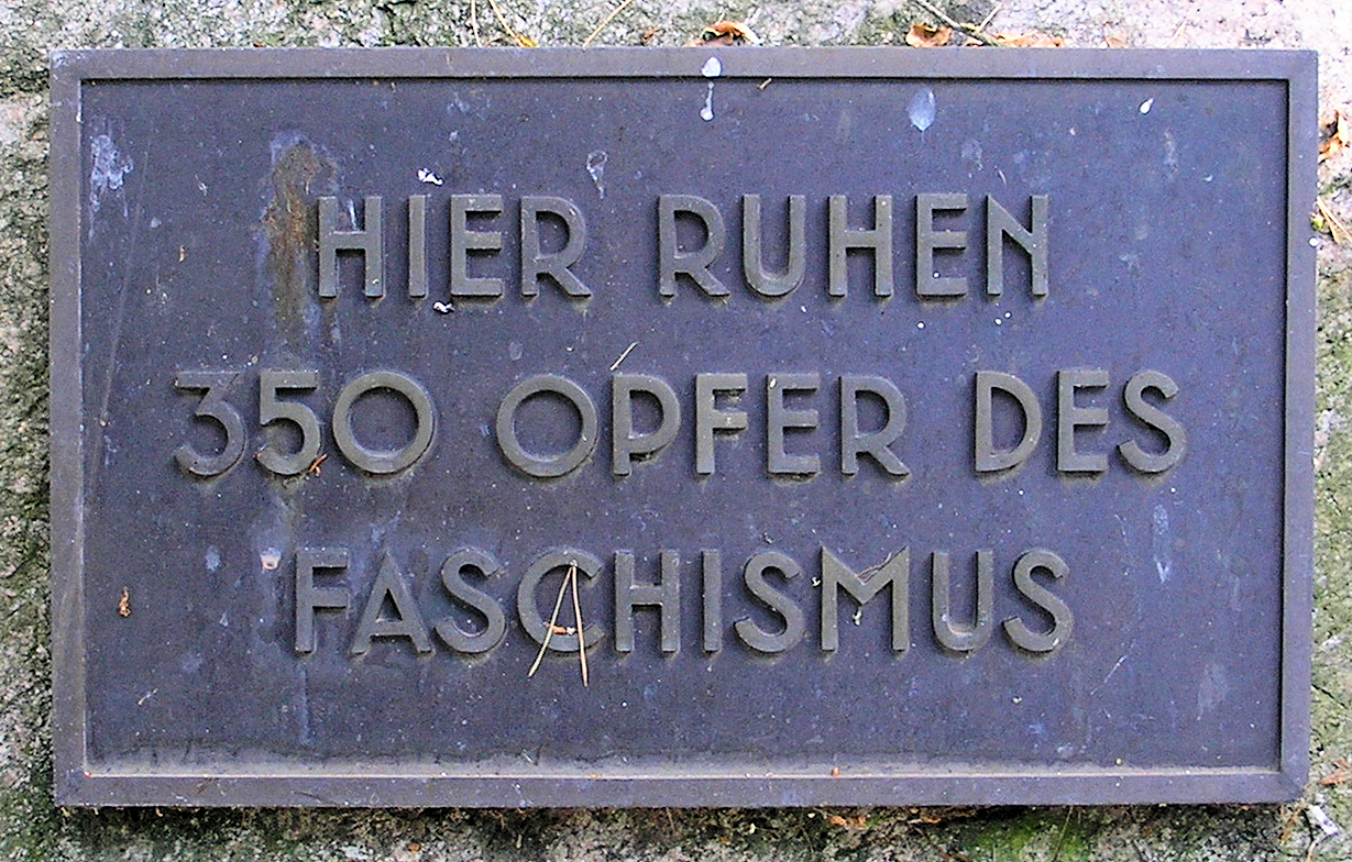 Memorial plaque, NS-Opfer, Pionierstraße 82, Berlin-Falkenhagener Feld, Germany